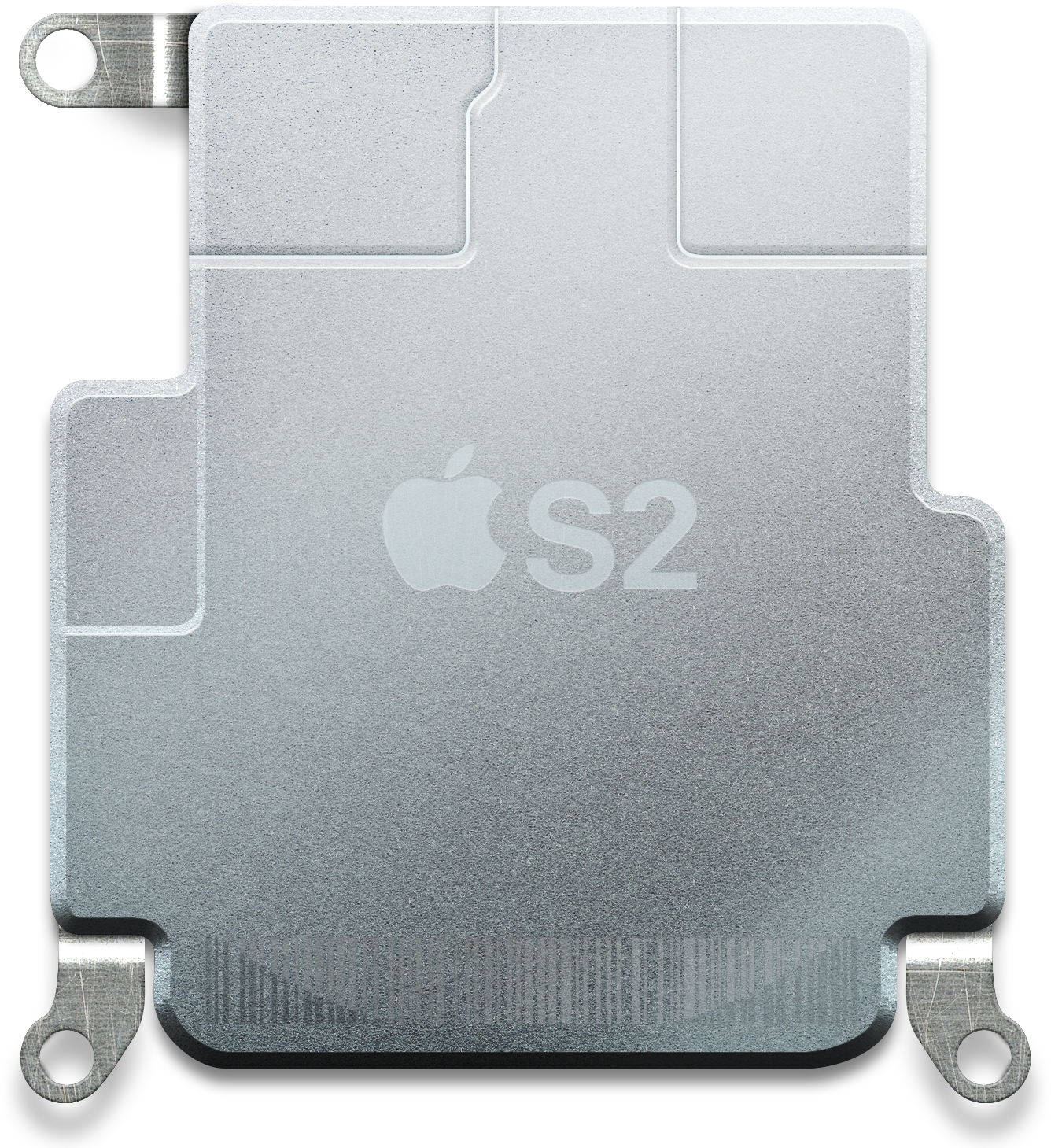 An illustration of Apple's A2 integrated computer for the Apple Watch Series 2 with its resin encapsulation showing. Inspiration for this picture comes from Apple's promo videos for the Apple Watch 2, iFixit's and Chipworks' Apple Watch 2 teardown.